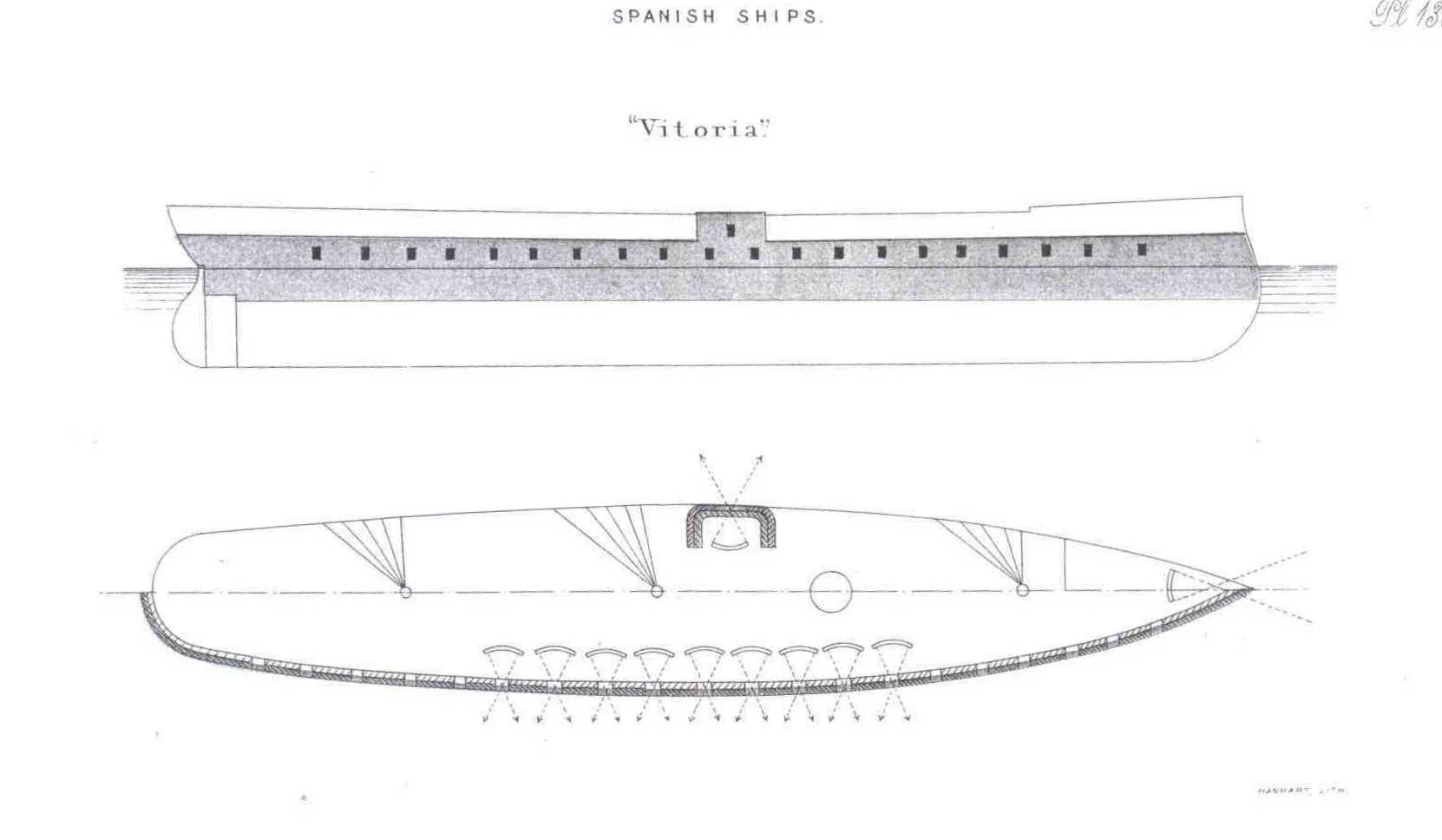 SPanish ironclad Vitoria, launched in 1865